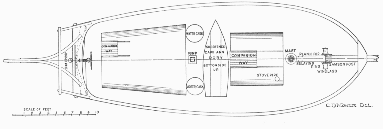 Deck-plan of the Spray.